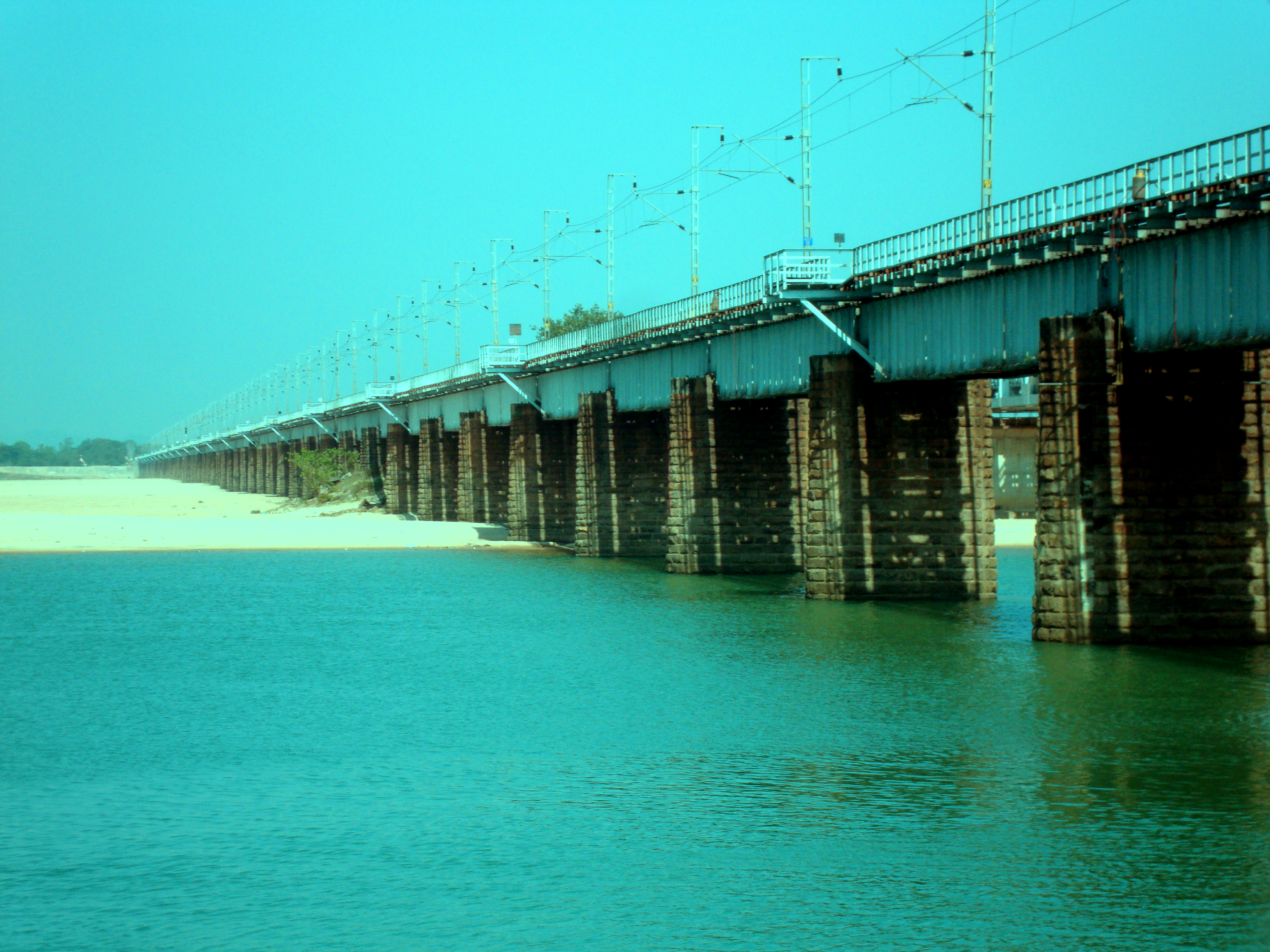 bridge near mahanadi vihar cuttack